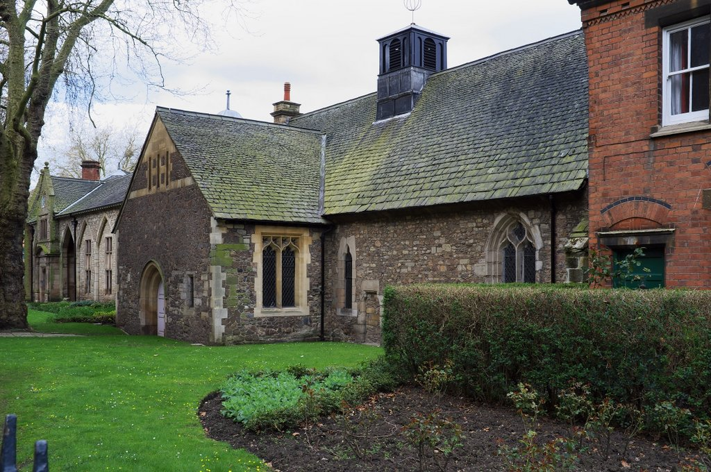 Trinity Hospital chapel in The Newarke, Leicester (now part of the Trinity Building of De Montfort University). The hospital was originally founded by Henry, third Earl of Lancaster and Leicester, and enlarged by his son Henry, first Duke of Lancaster.